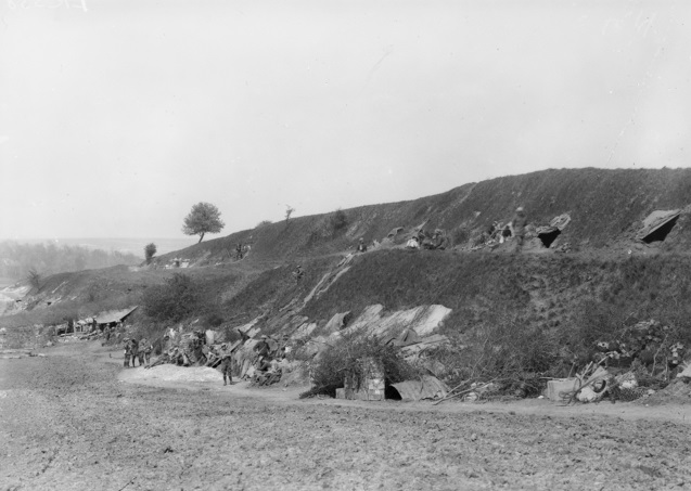 Troops from the headquarters of the Australian 35th Battalion, 9th Brigade in Marett Wood near Morlancourt, 9 May 1918